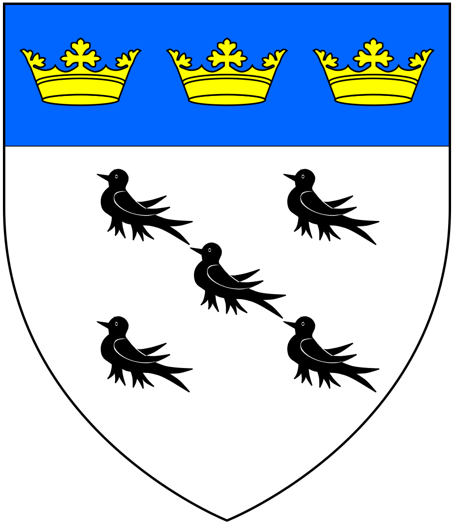 Arms of Bodley of Dunscombe, Crediton, Devon: Argent, five martlets saltirewise sable on a chief azure three ducal crowns or (Vivian, Lt.Col. J.L., (Ed.) The Visitation of the County of Devon: Comprising the Heralds' Visitations of 1531, 1564 & 1620, Exeter, 1895, p.96)